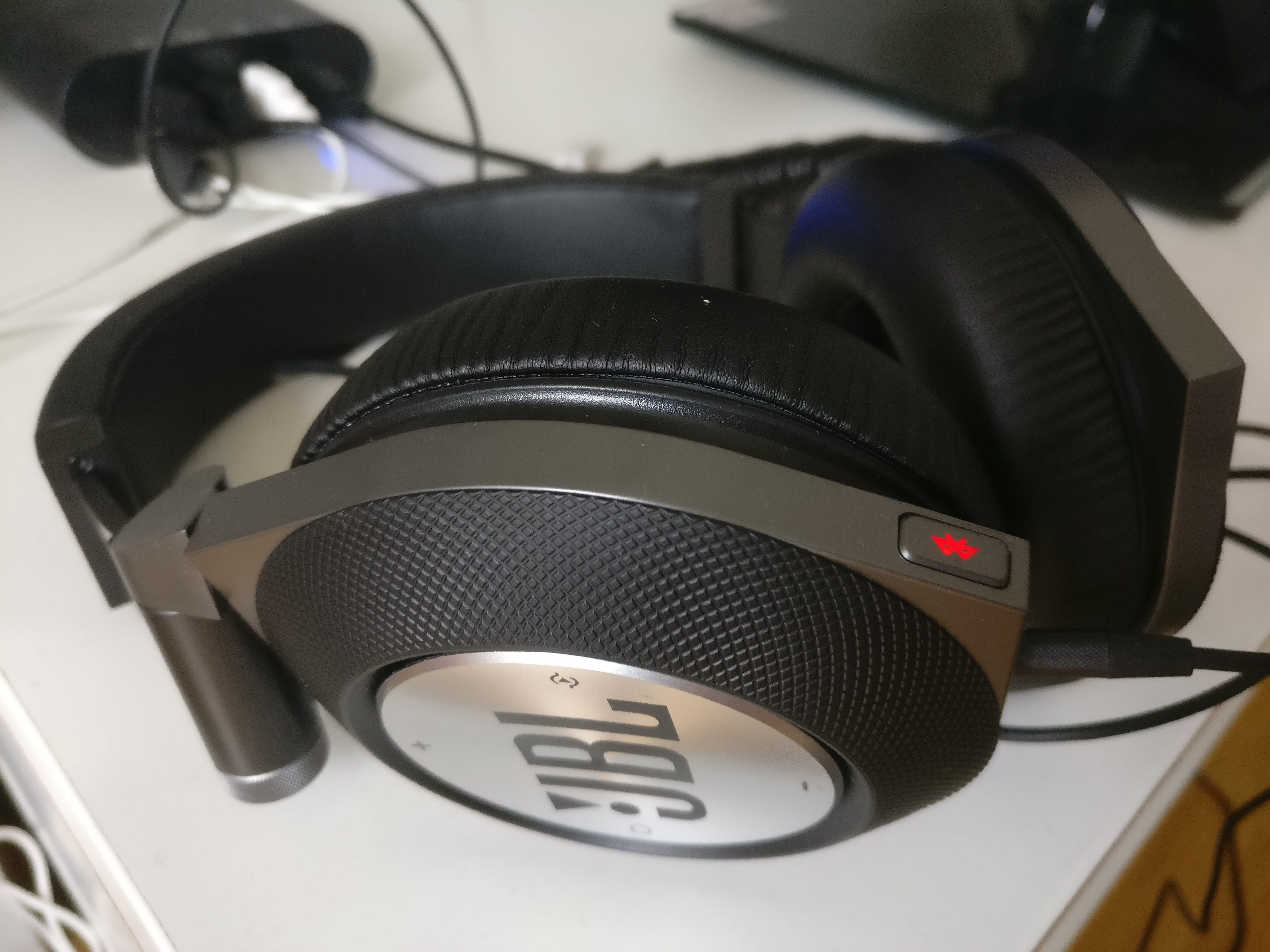 JBL headphones "Synchros E50BT" during USB battery charge.